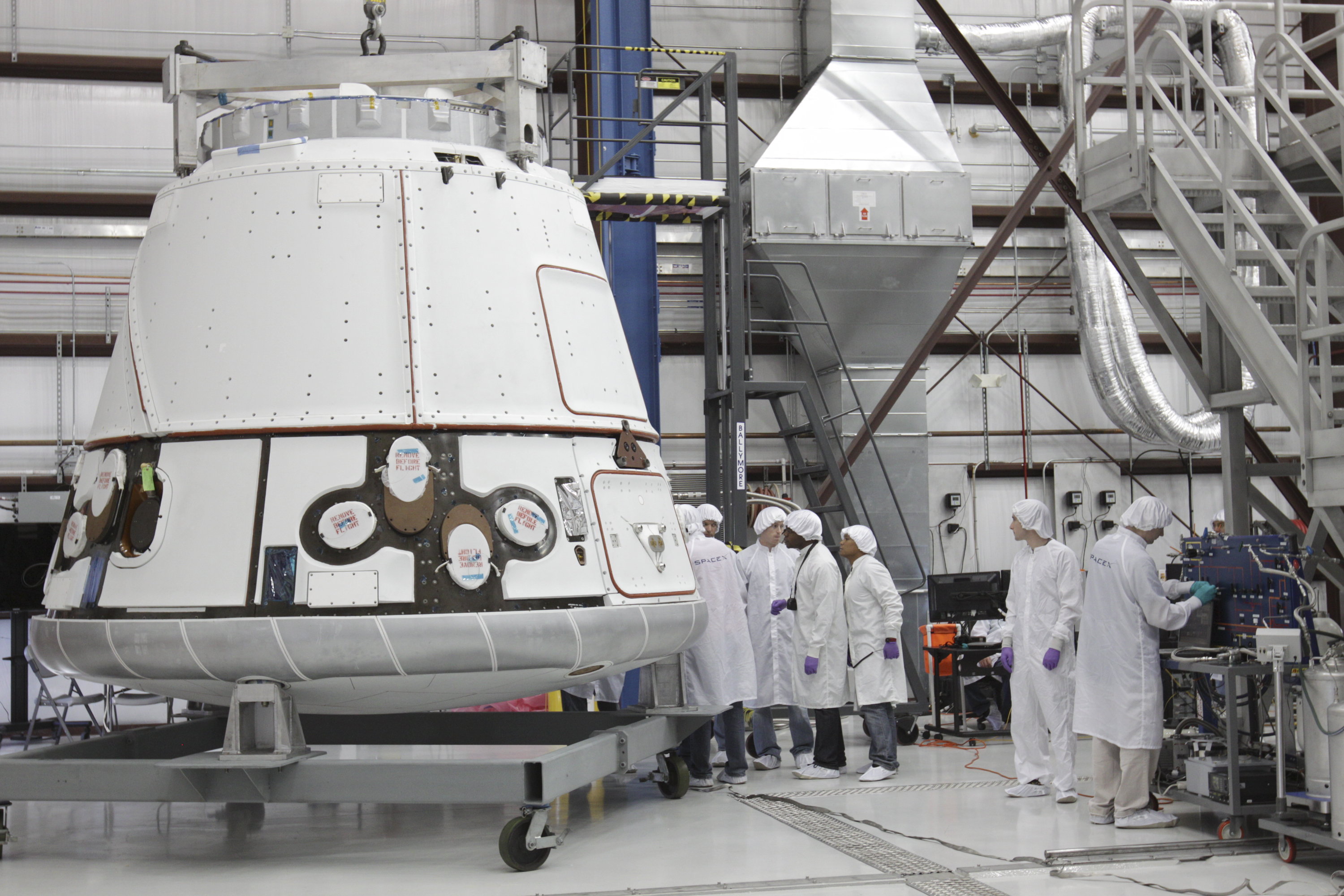 CAPE CANAVERAL, Fla. -- The Space Exploration Technologies Corp. (SpaceX) Dragon capsule is readied for lifting and placement to its cargo ring inside a processing hangar at Cape Canaveral Air Force Station in Florida on Nov. 16. Later, the combination will be attached to the top of a Falcon 9 rocket on Space Launch Complex-40 for the company's next demonstration test flight for NASA's Commercial Orbital Transportation Services (COTS) program. SpaceX is one of two companies under contract with NASA to take cargo to the International Space Station. NASA is working with SpaceX to combine its last two demonstration flights, and if approved, the Falcon 9 rocket would launch the Dragon capsule to the orbiting laboratory for a docking within the next several months.